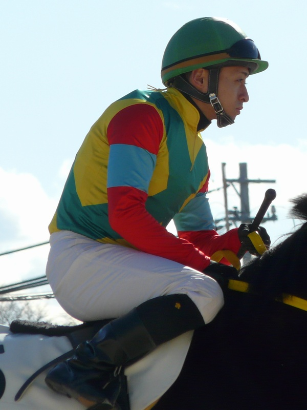 Tadamasa-Sakaue